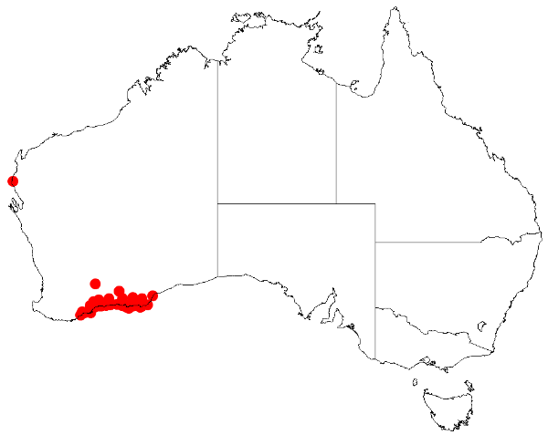 Scaevola cuneiformis occurrence data from Australasian Virtual Herbarium downloaded 12 May 2019 (no doi)